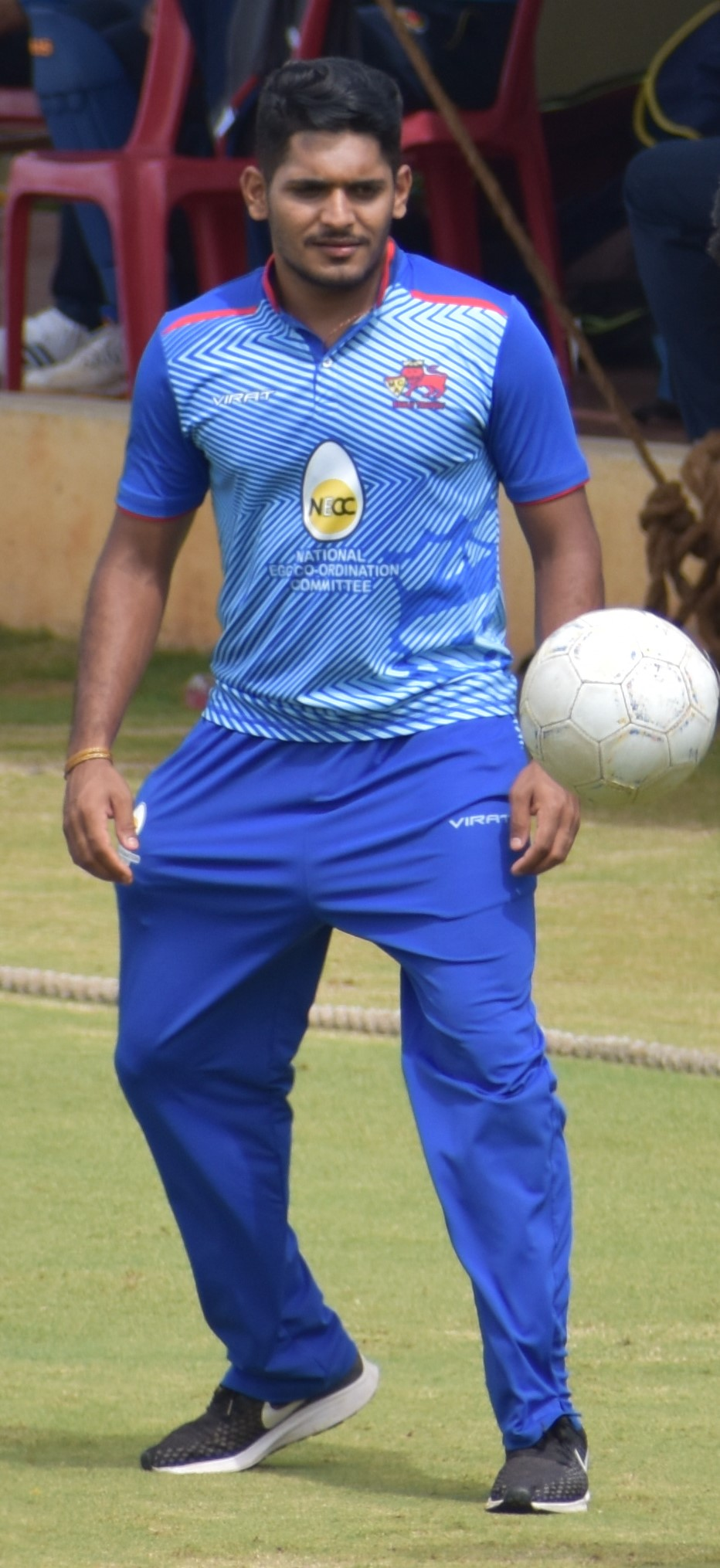 Indian cricketer Tushar Deshpande during the 2019-20 Vijay Hazare Trophy in Alur, Bangalore.